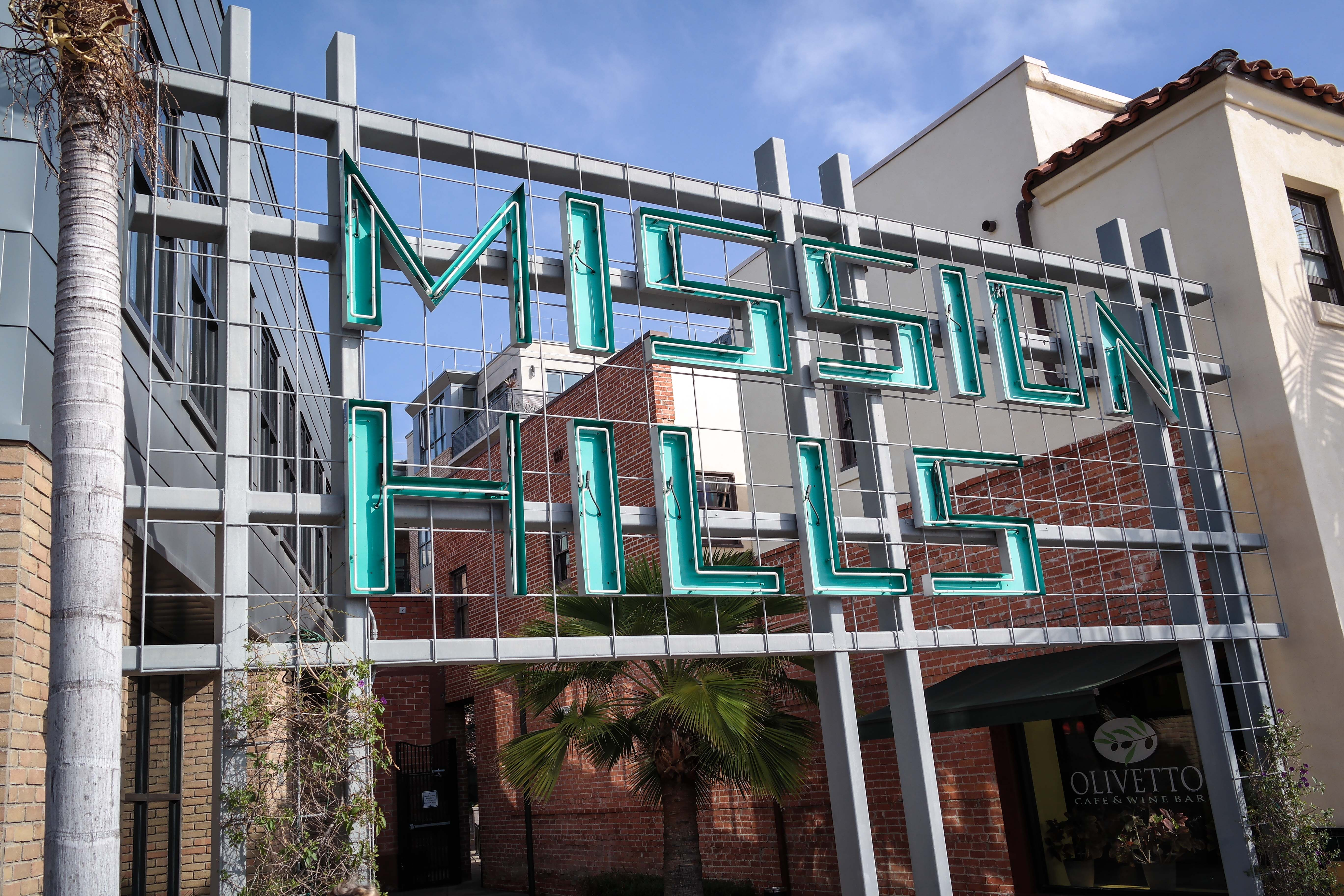 The Mission Hills sign at "Paseo de Mission Hills" complex, Washington Street at Goldfinch, Mission Hills, San Diego